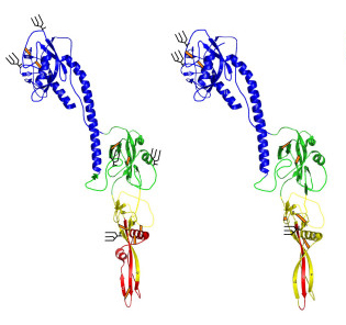 Models of THOV GP (left) and AcMNPV GP64 (right) based on the X-ray crystallographic structure of VSV G. Key: blue: domain III; green: domain I; yellow: domain II; red: fusion loops; orange/black lines: dicysteine linkages; black lines: N-glycosylation sites.